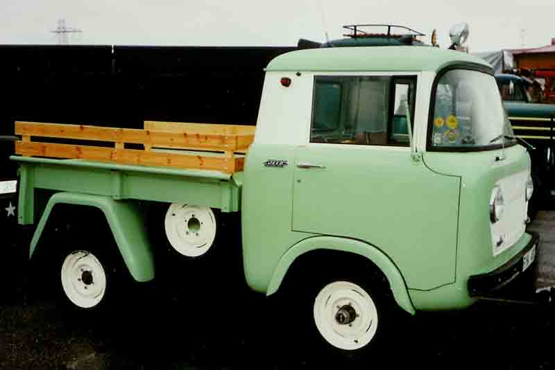 1963 Willys Forward Control Pickup